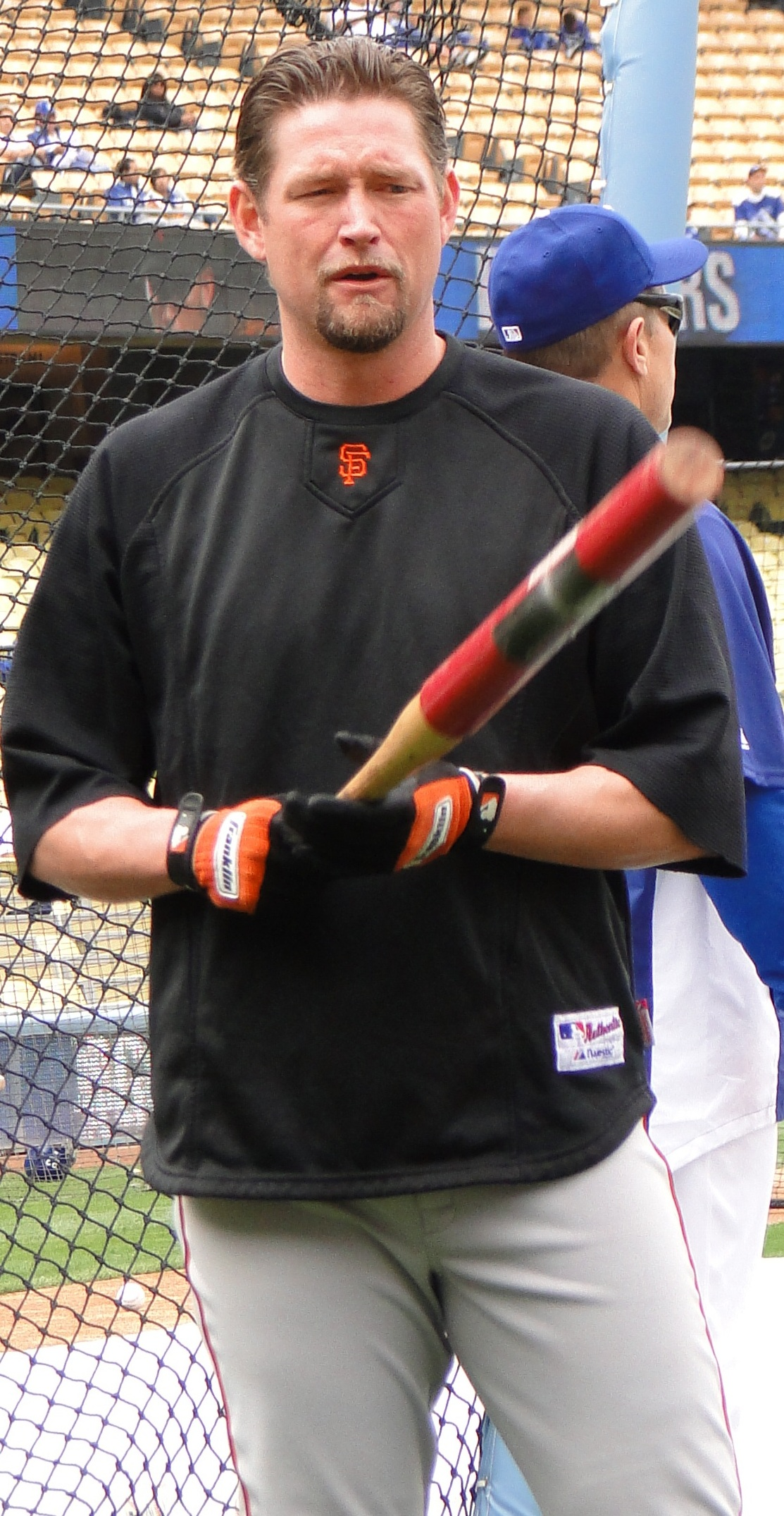 Aubrey Huff during batting practice with San Francisco Giants at Dodger Stadium.